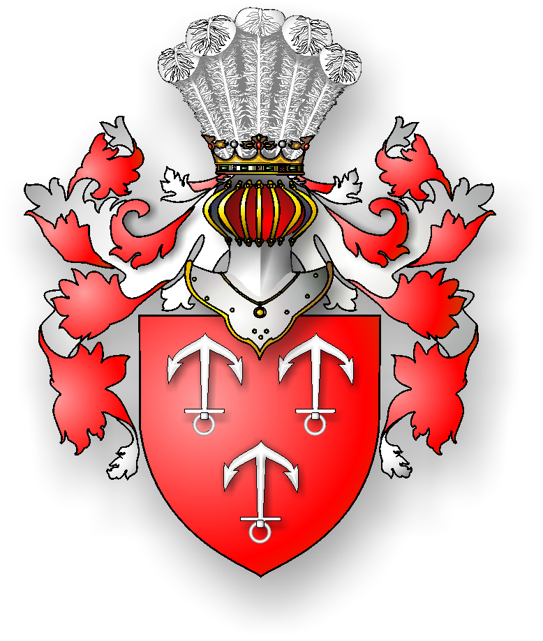 polish CoA Trzy Kotwice (another version / herb Trzy Kotwice, wg.J.B.Rietapa Armoires general